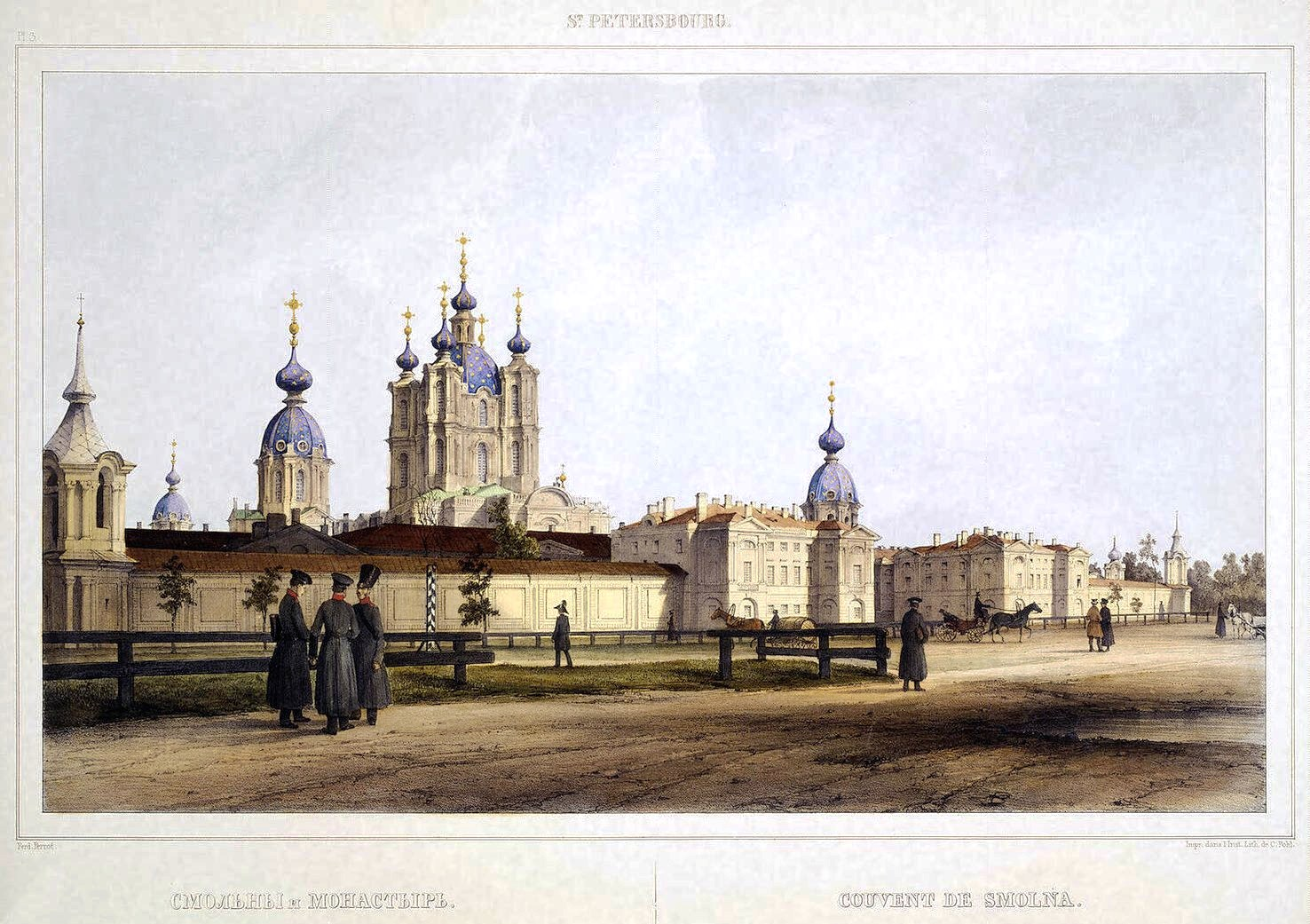 View of the Smolny Convent.label QS:Lru,"Вид Смольного монастыря." label QS:Len,"View of the Smolny Convent."